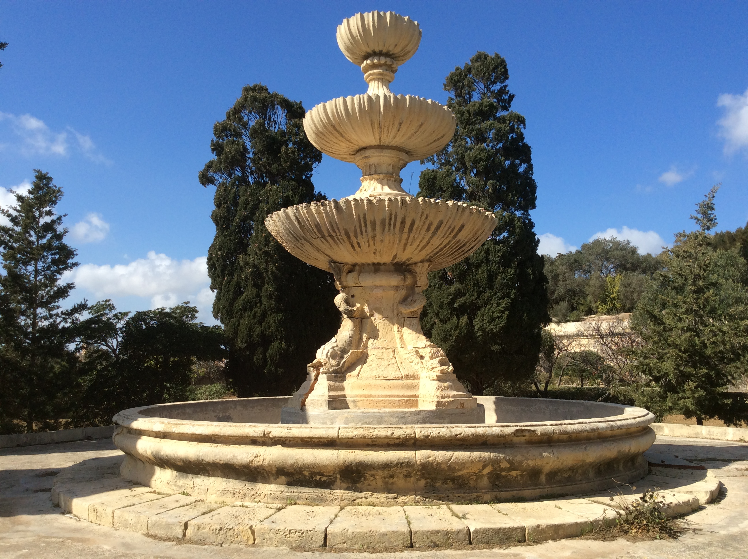 Floriana aquaduct fountain